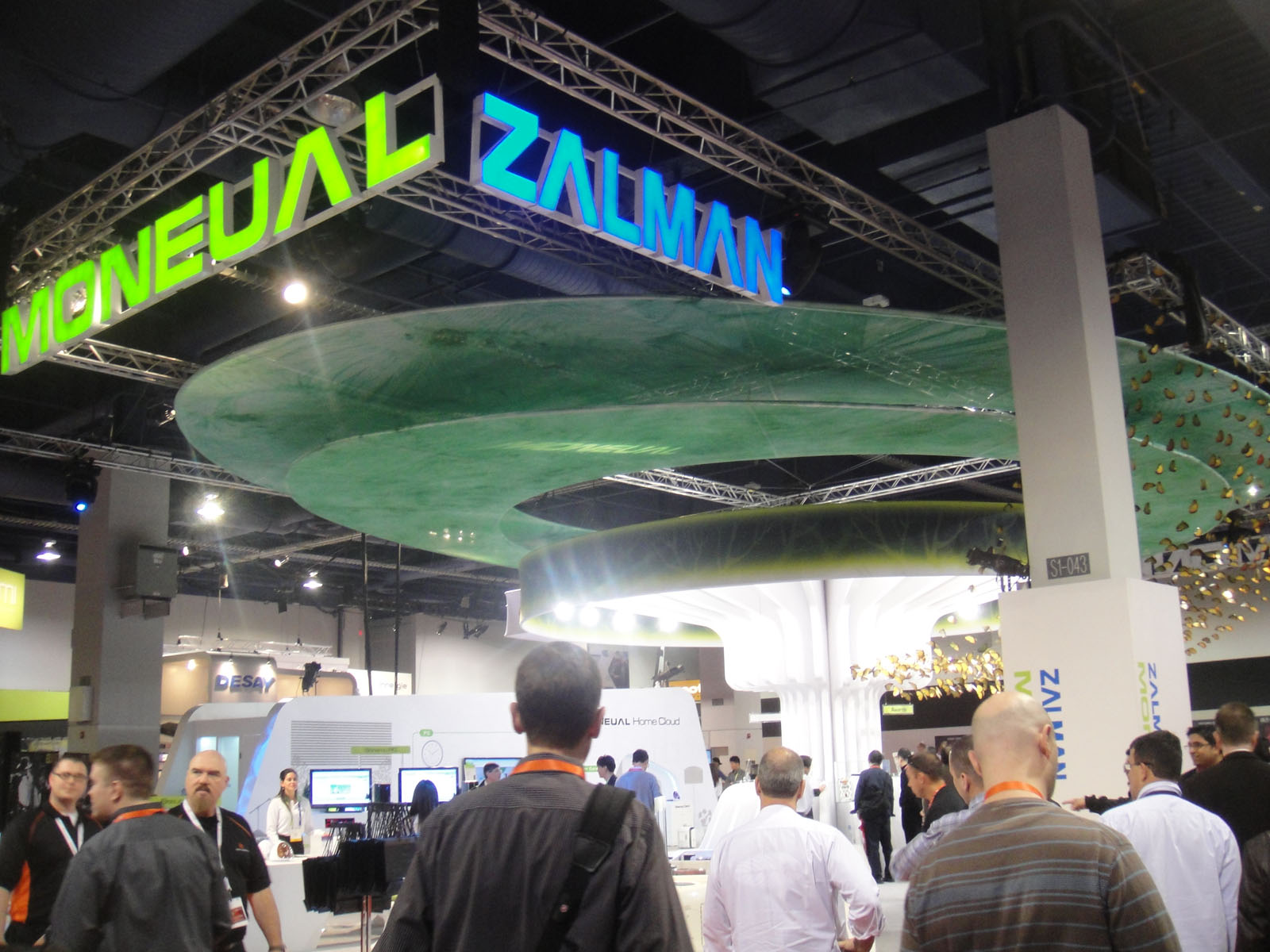 photo 2012 Pop Culture Geek taken by Doug Kline If you're interested in higher resolution versions of my images, contact me via my profile page.